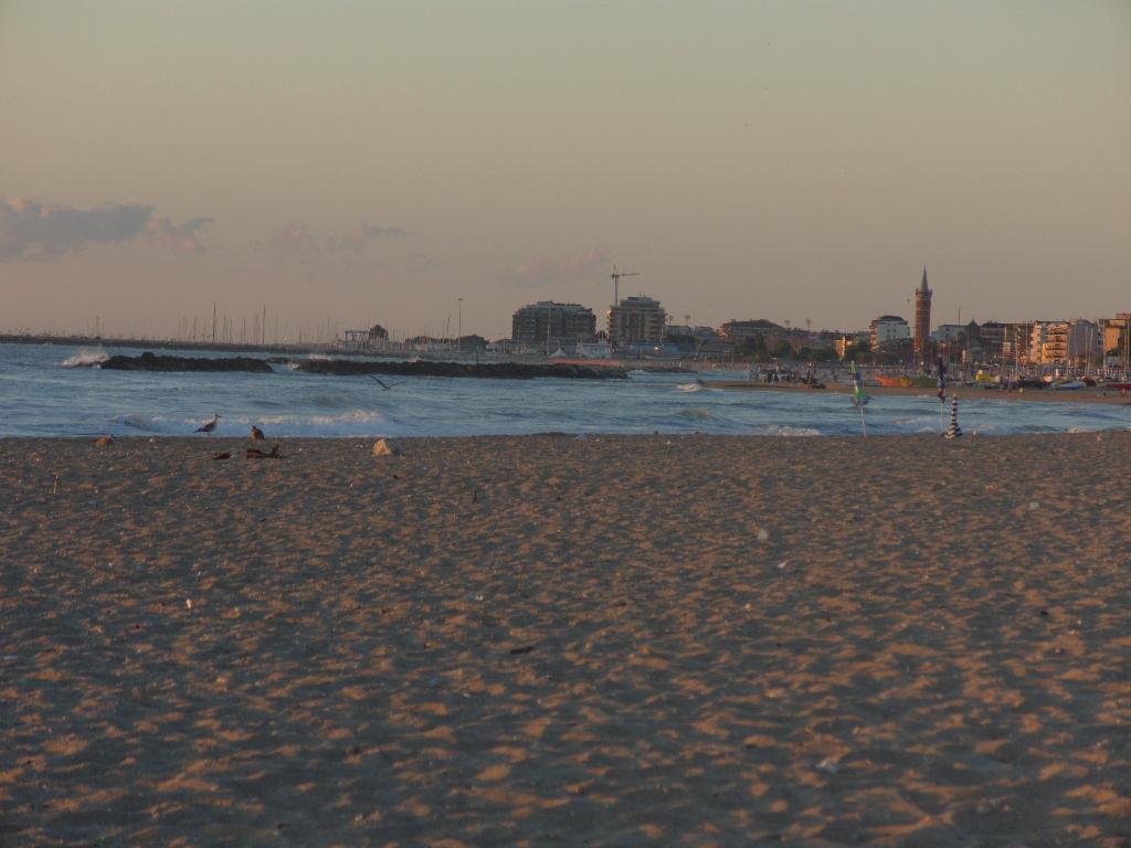 View of the bayside of Civitanova Marche, photo taken from a northern beach. Dawn. 9th August 2008